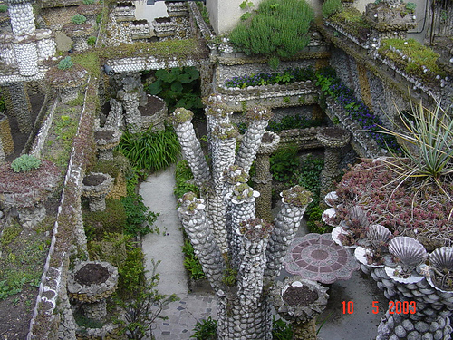 Garden named Rosa Mir in Lyon in France - alley